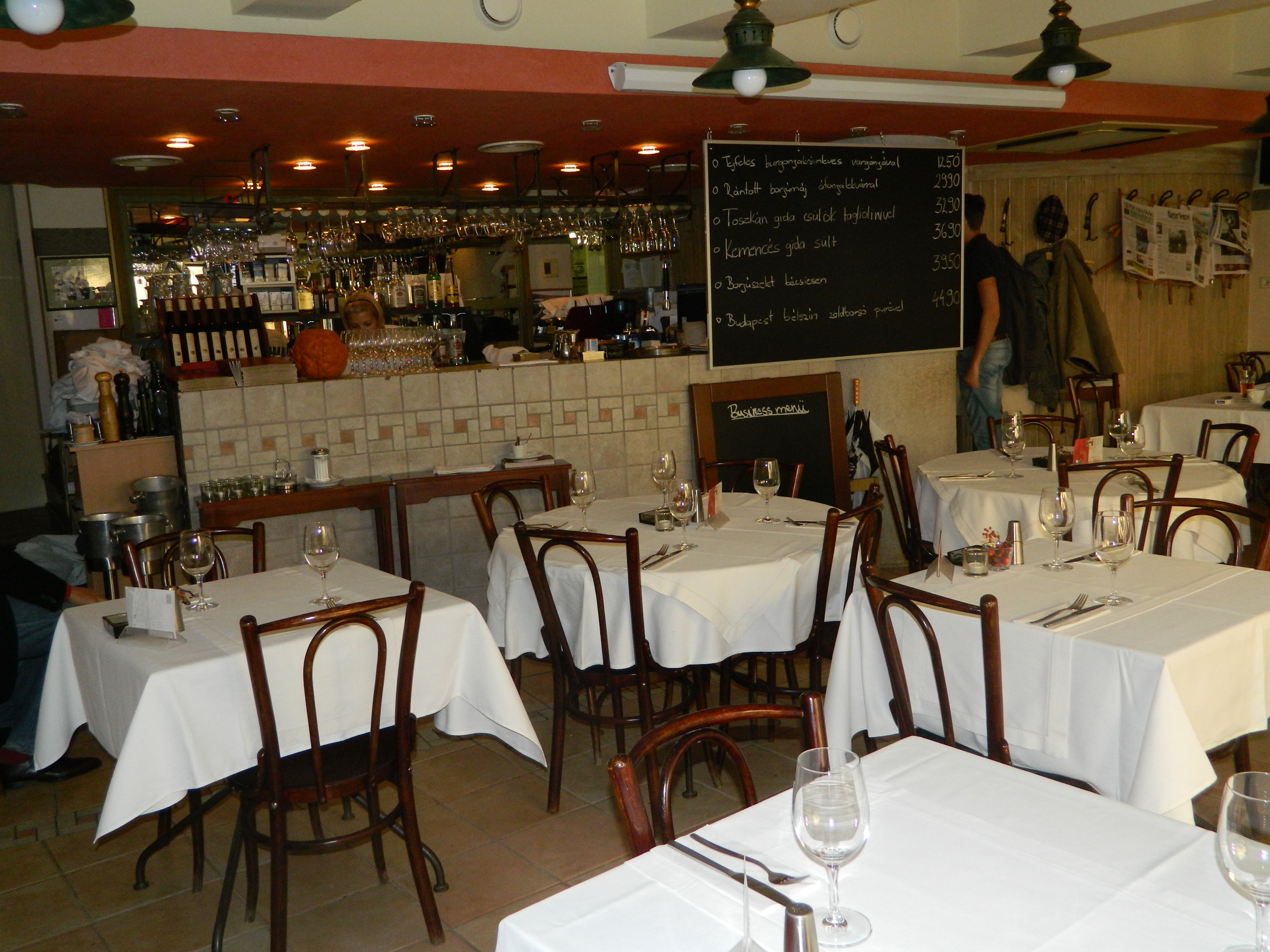 Interior of the Biarritz cafe in Budapest